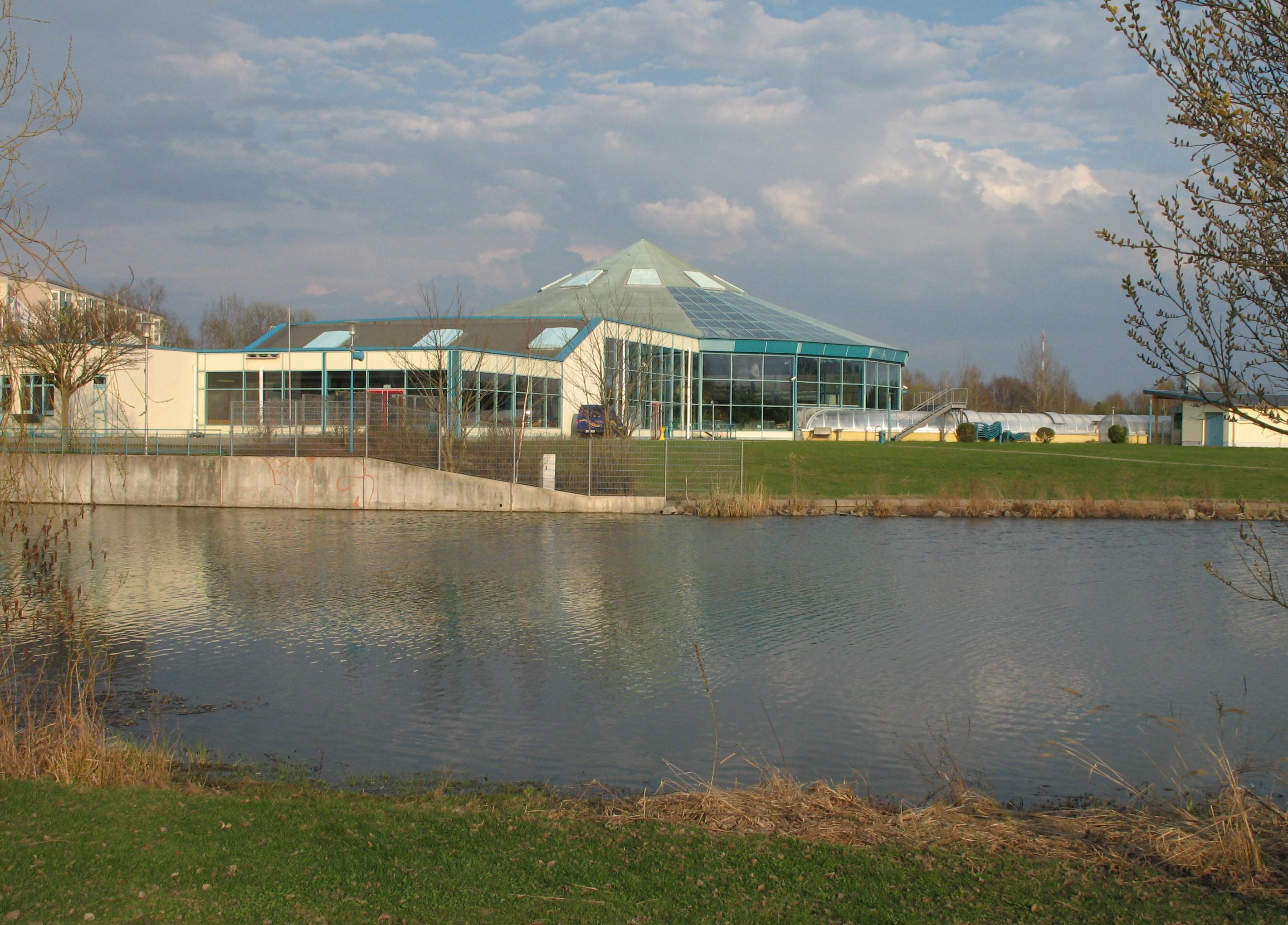 Lake and bath "Lausitzbad" in Hoyerswerda in Saxony, Germany